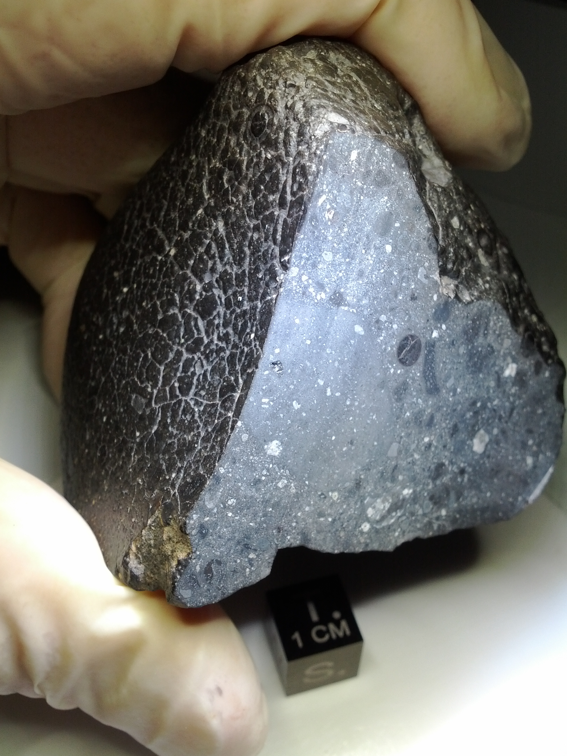 Mars Meteorite - NWA 7034 Designated Northwest Africa (NWA) 7034, and nicknamed "Black Beauty," the Martian meteorite weighs approximately 11 ounces (320 grams). Credit: NASA